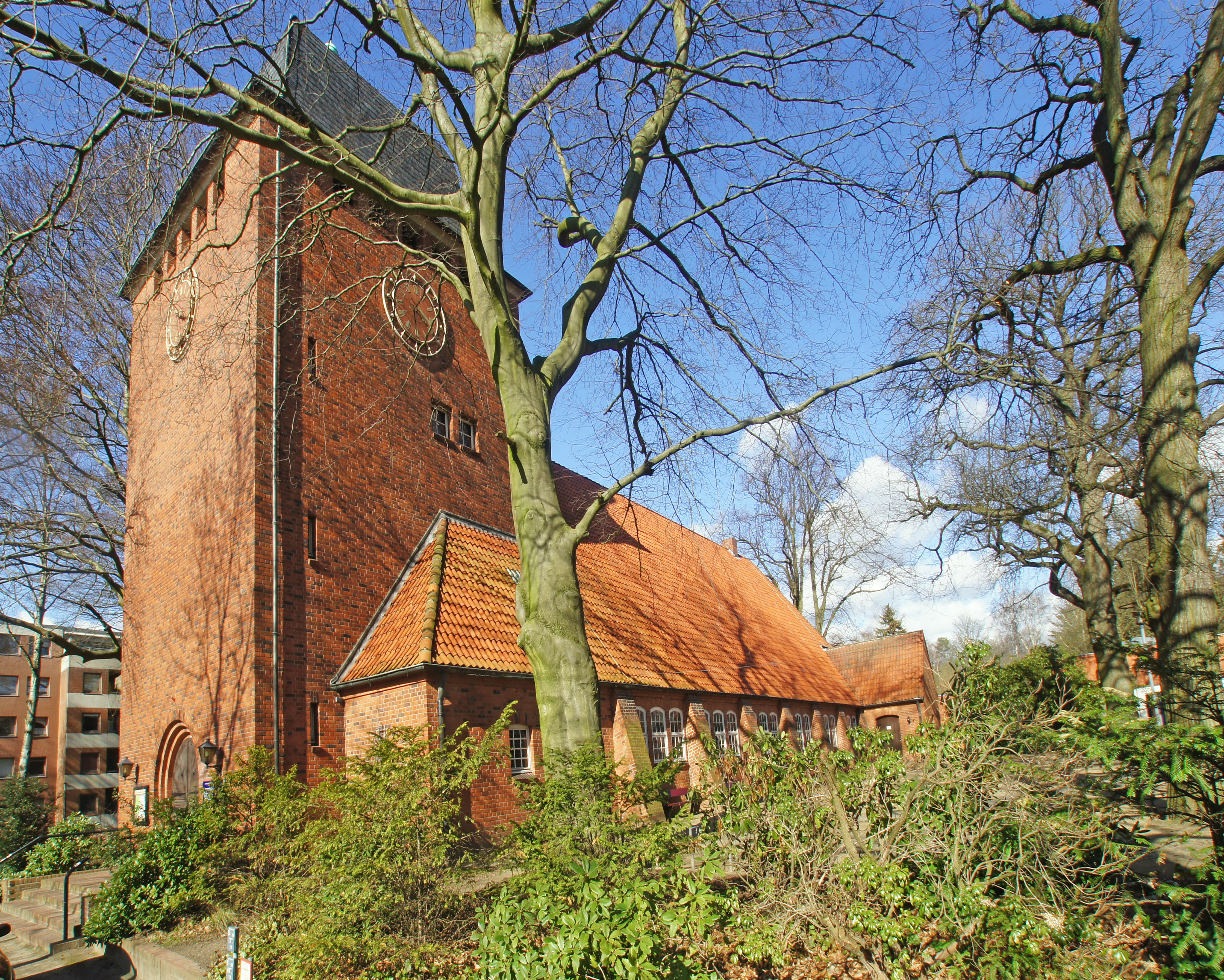 Hamburg (Fuhlsbüttel), Germany: Luke's Church